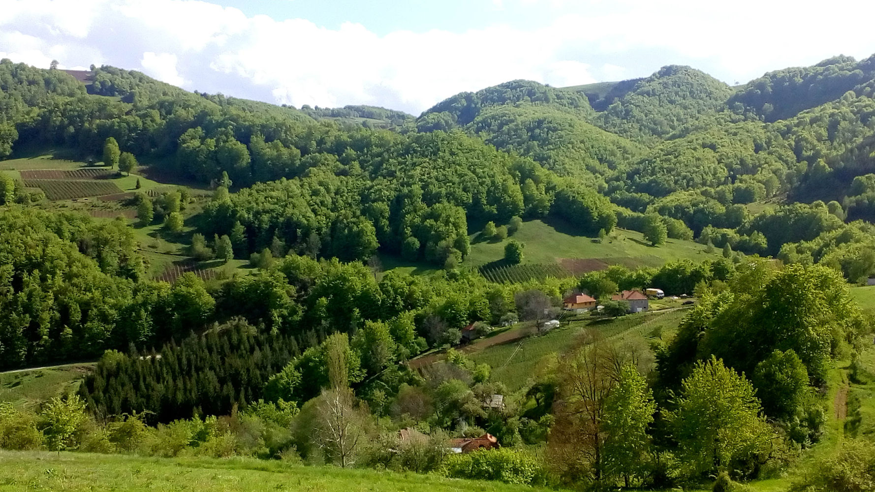 The slopes of Kopaonik, view from the viewpoint on the road Raska-Brus